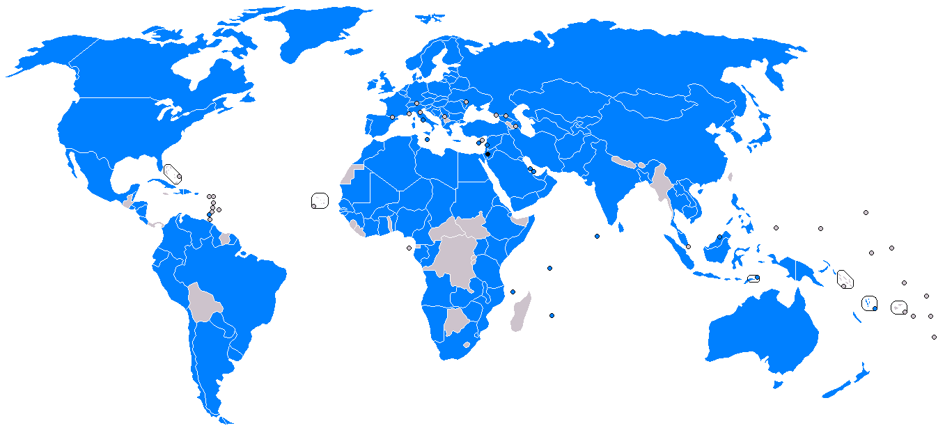 PLO/PNA/SoP relations